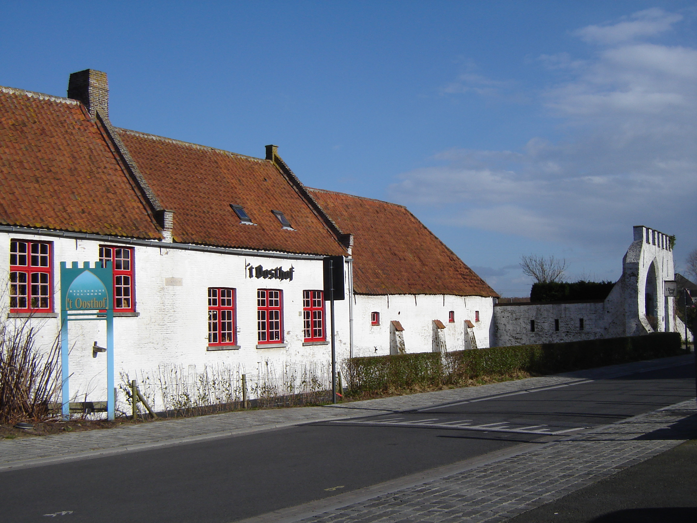 Oosthof in Snellegem, ancient medieval farm (dates back to at least 941), nowadays a restaurant in Snellegem, Jabbeke, West Flanders, Belgium